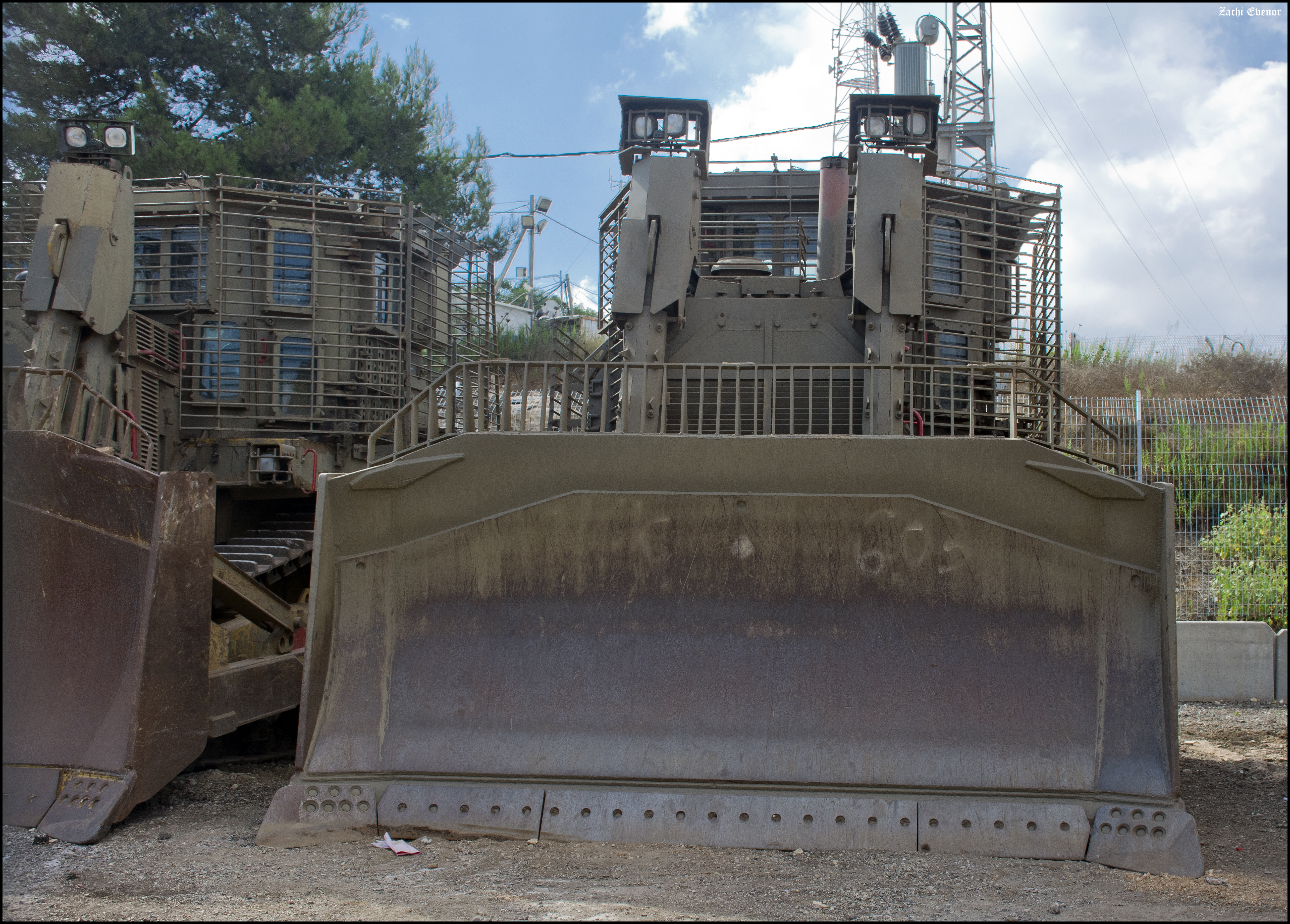 IDF bulldozers in Gush Etzion, Israel. In the photo: IDF Caterpillar D9R armored bulldozers of Tzama 603 ("Cat's Claws").